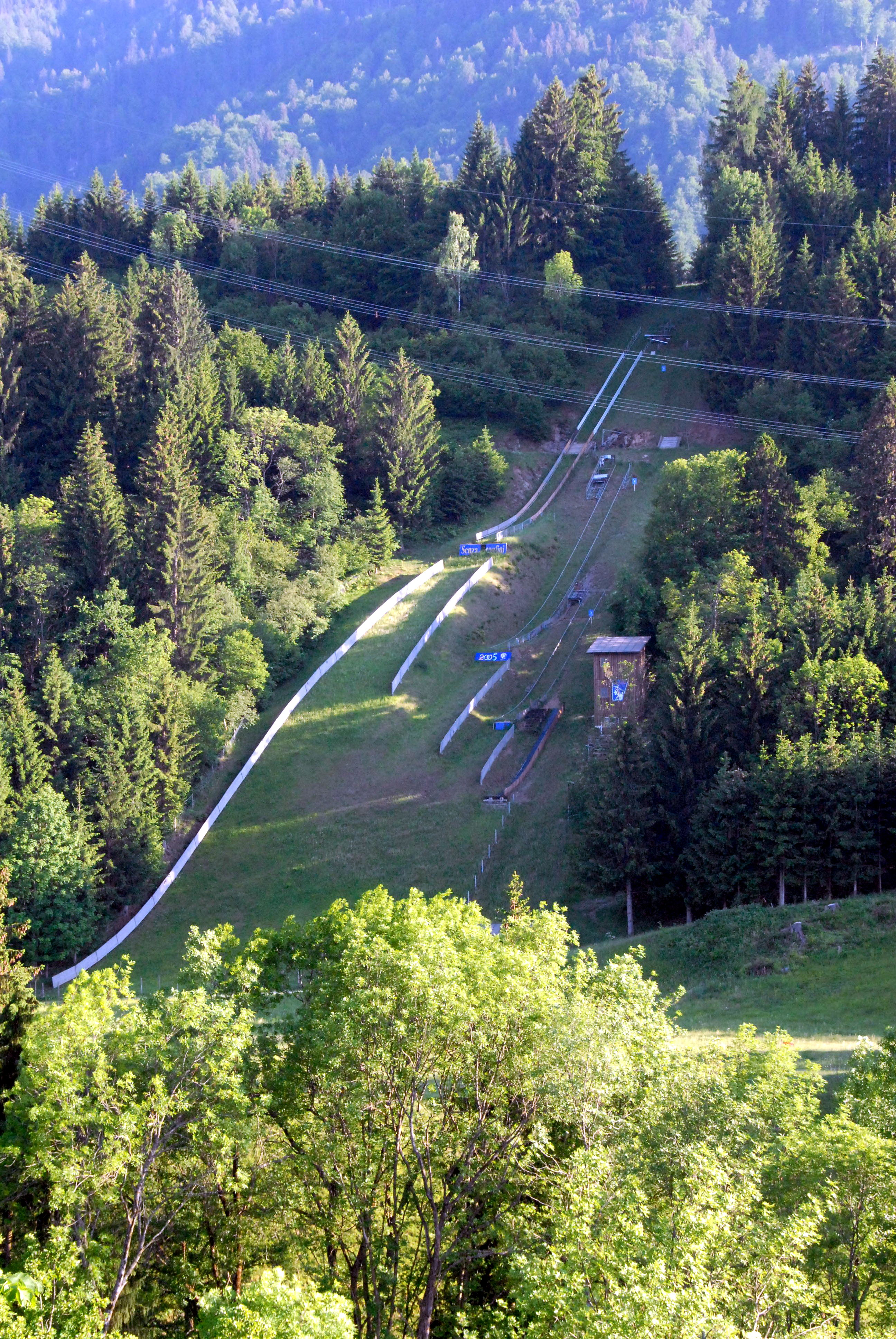 Ski jumping arena in Achomitz, municipality Hohenthurn, district Villach Land, Carinthia, Austria, EU